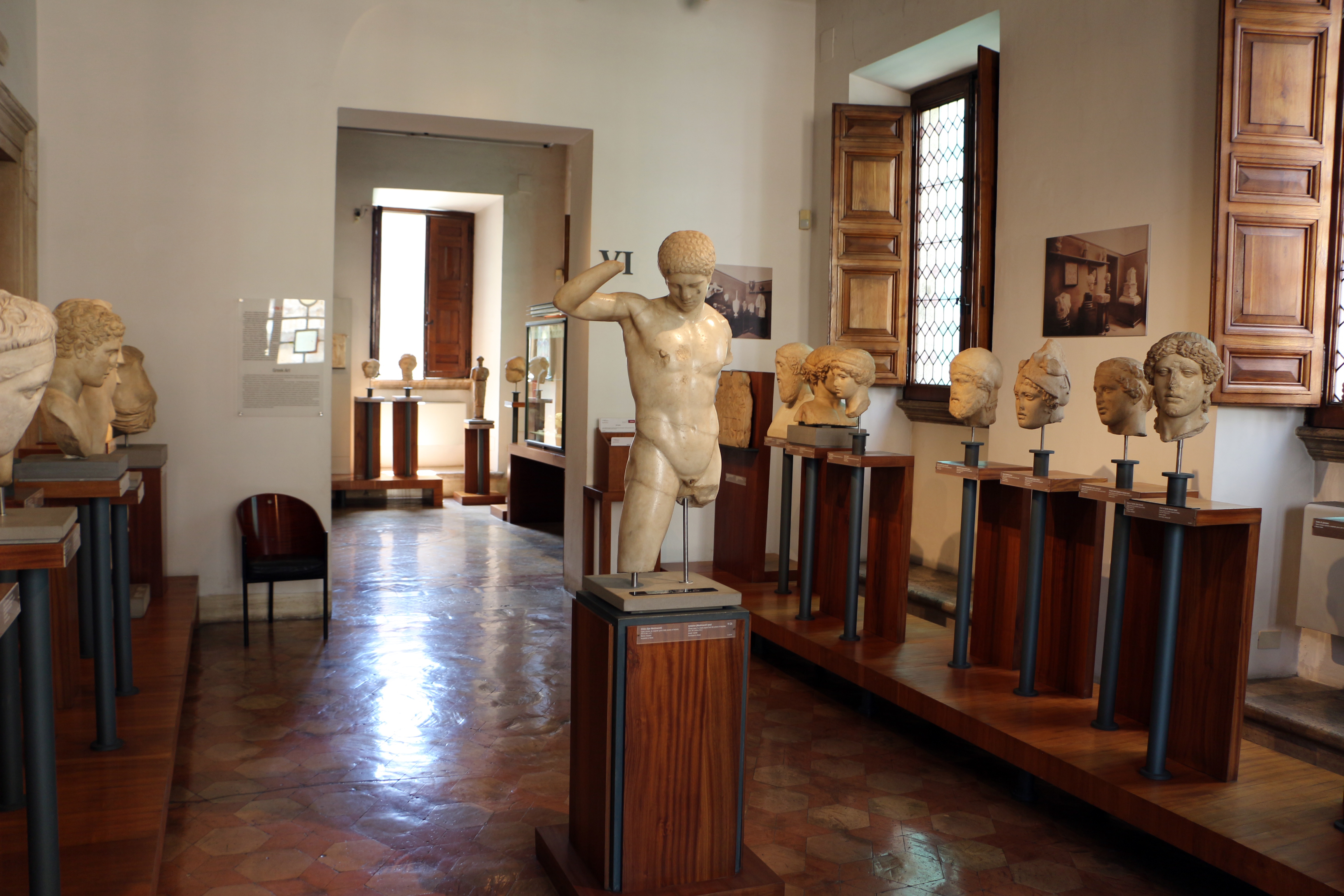 Collections of the Museo Barracco